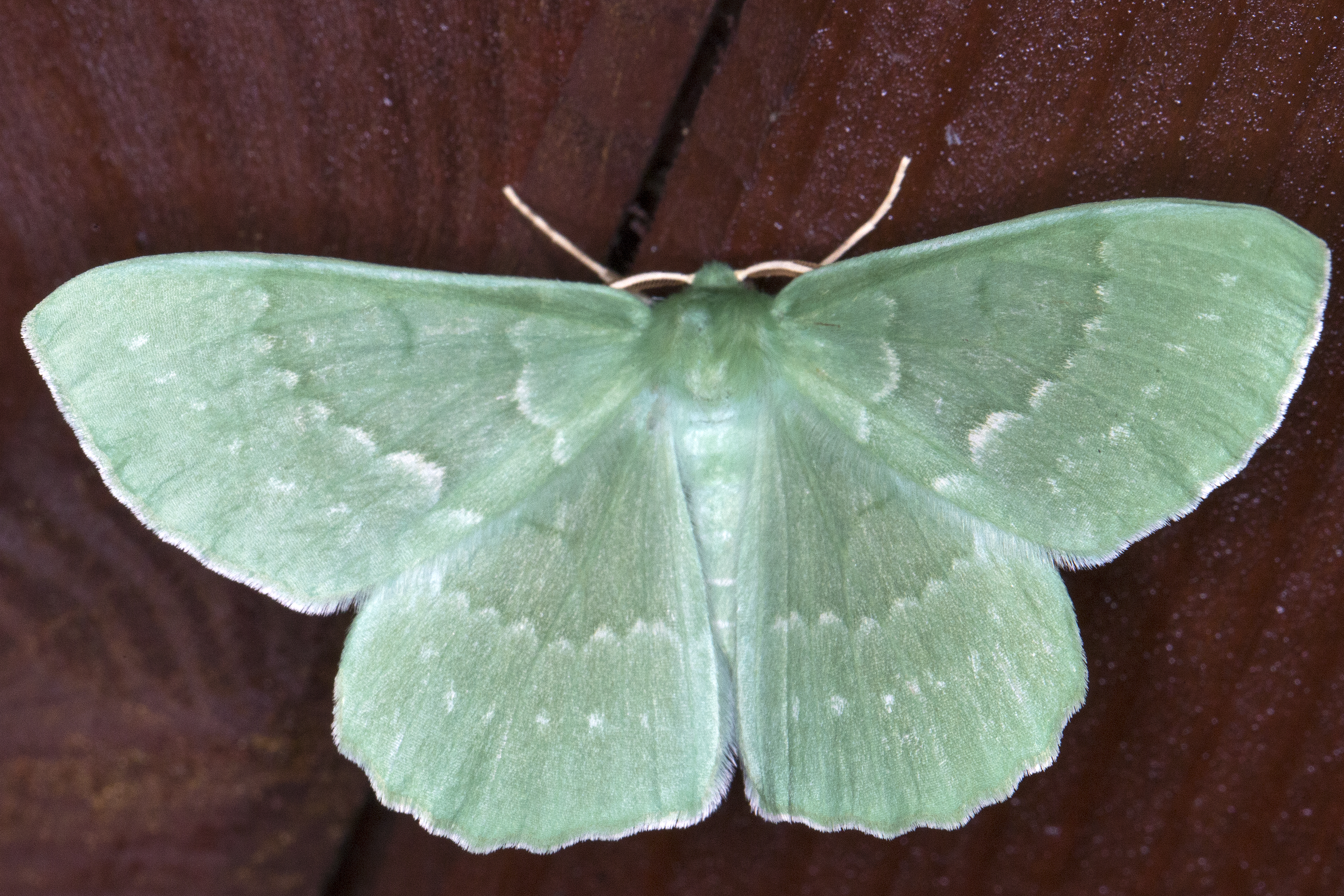 The Large Emerald Geometra papilionaria, Lodz (Poland)